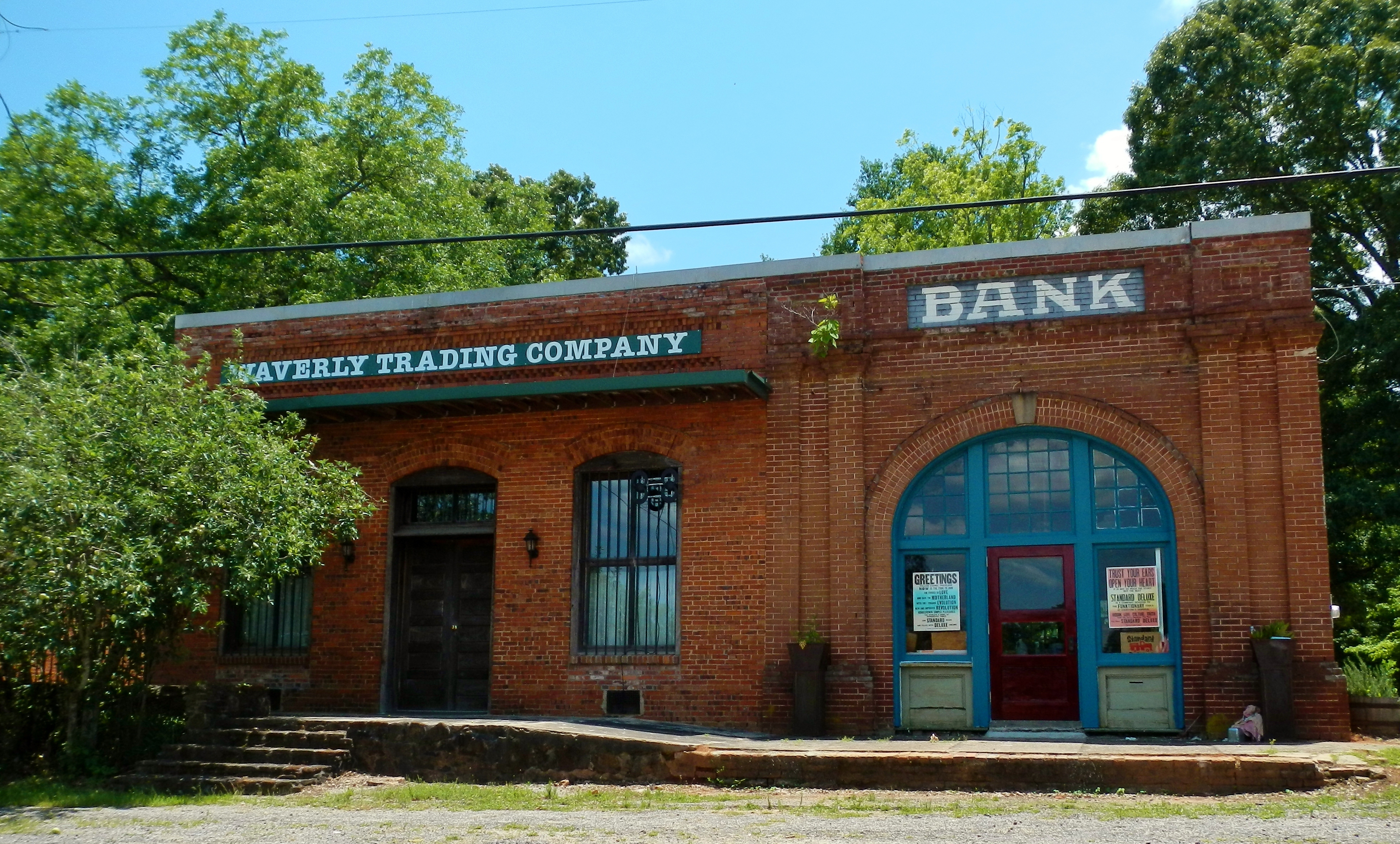 This is a photo of Waverly, Alabama